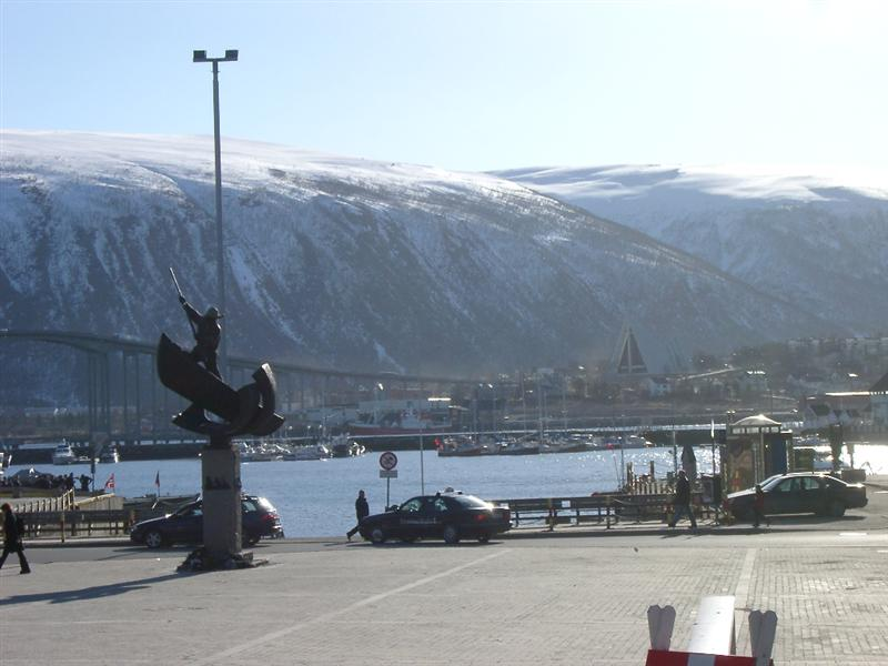 Tromsø City downtown and harbor